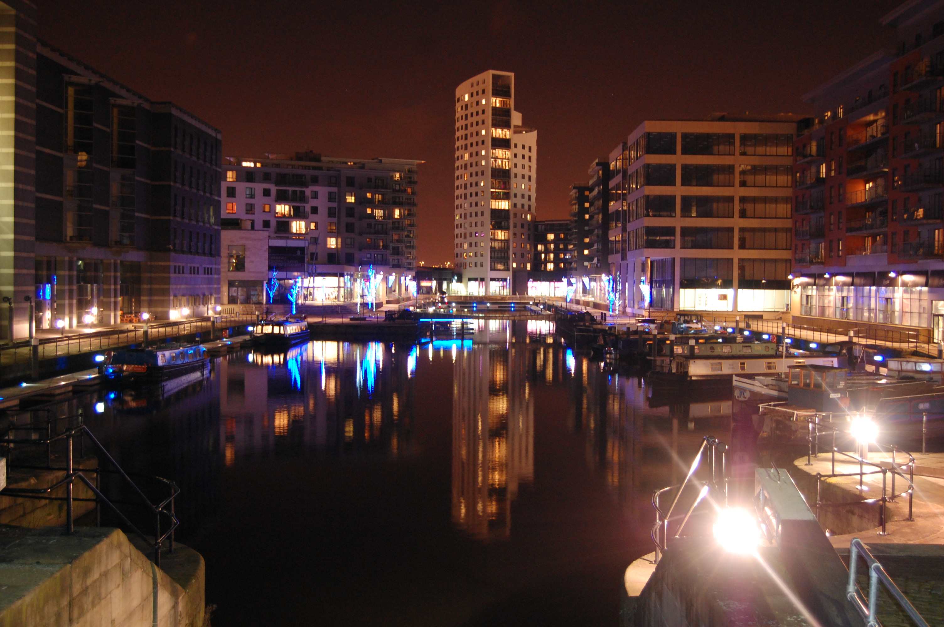 clarence dock leeds at night